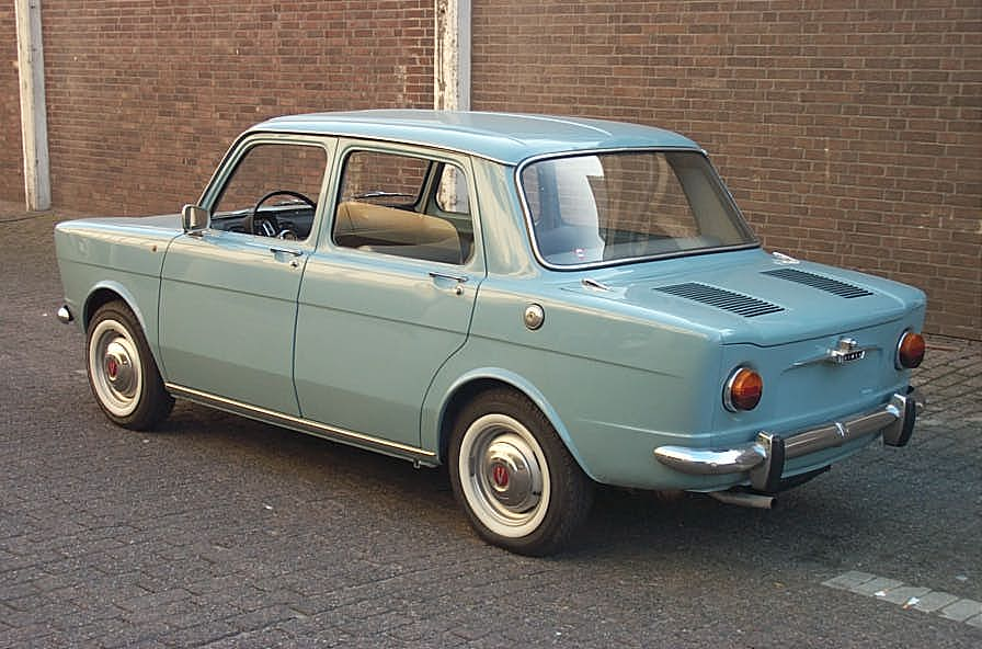 1963 Simca 1000 saloon, alice blue, interior in gray fake leatherFirst registered on 22 August 1963, 51.138 km at the time the photo was taken The vehicle was on sale at the Garage de l'Est at the time the image was uploaded